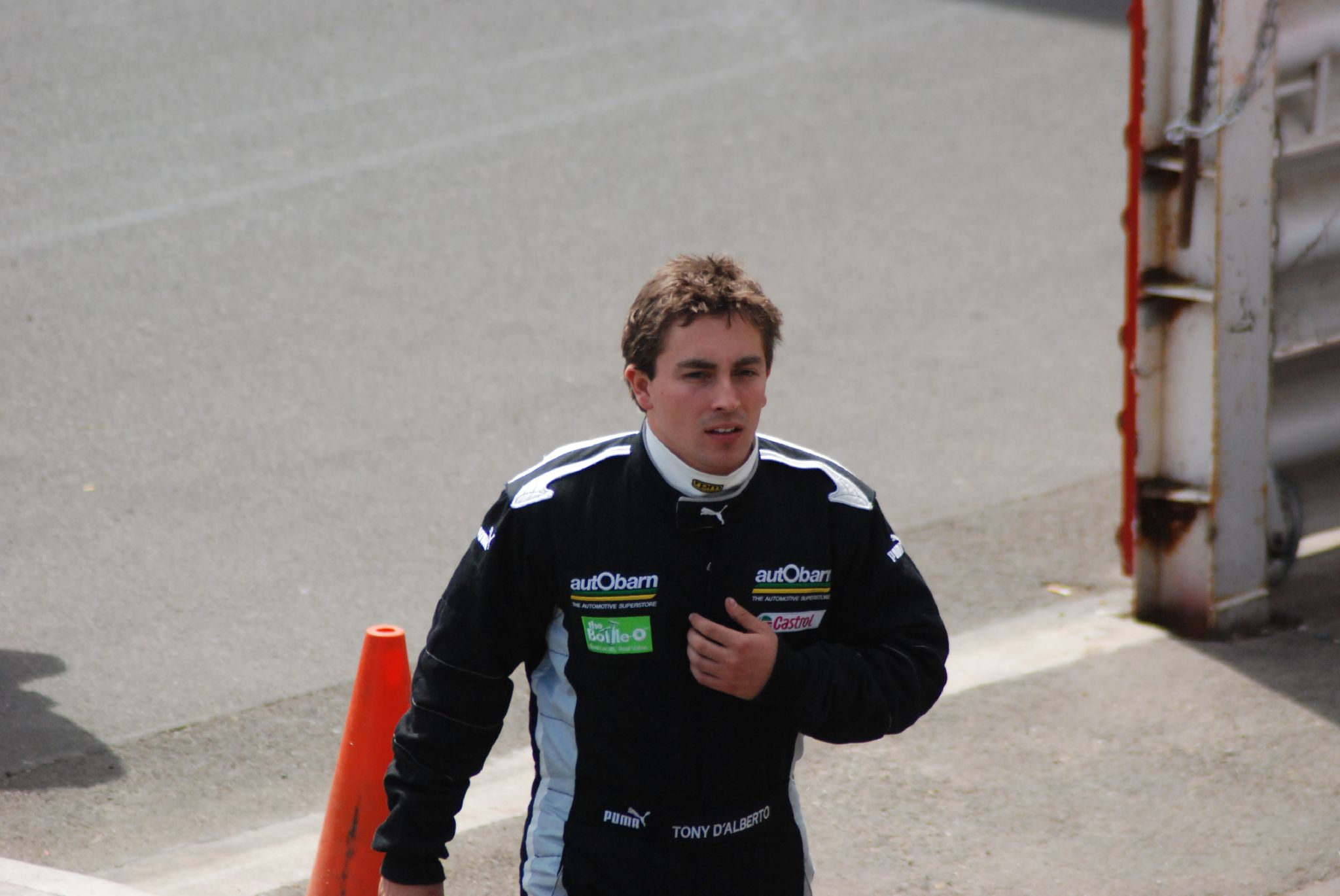 Tony D'Alberto at the 2007 Bathurst 1000.